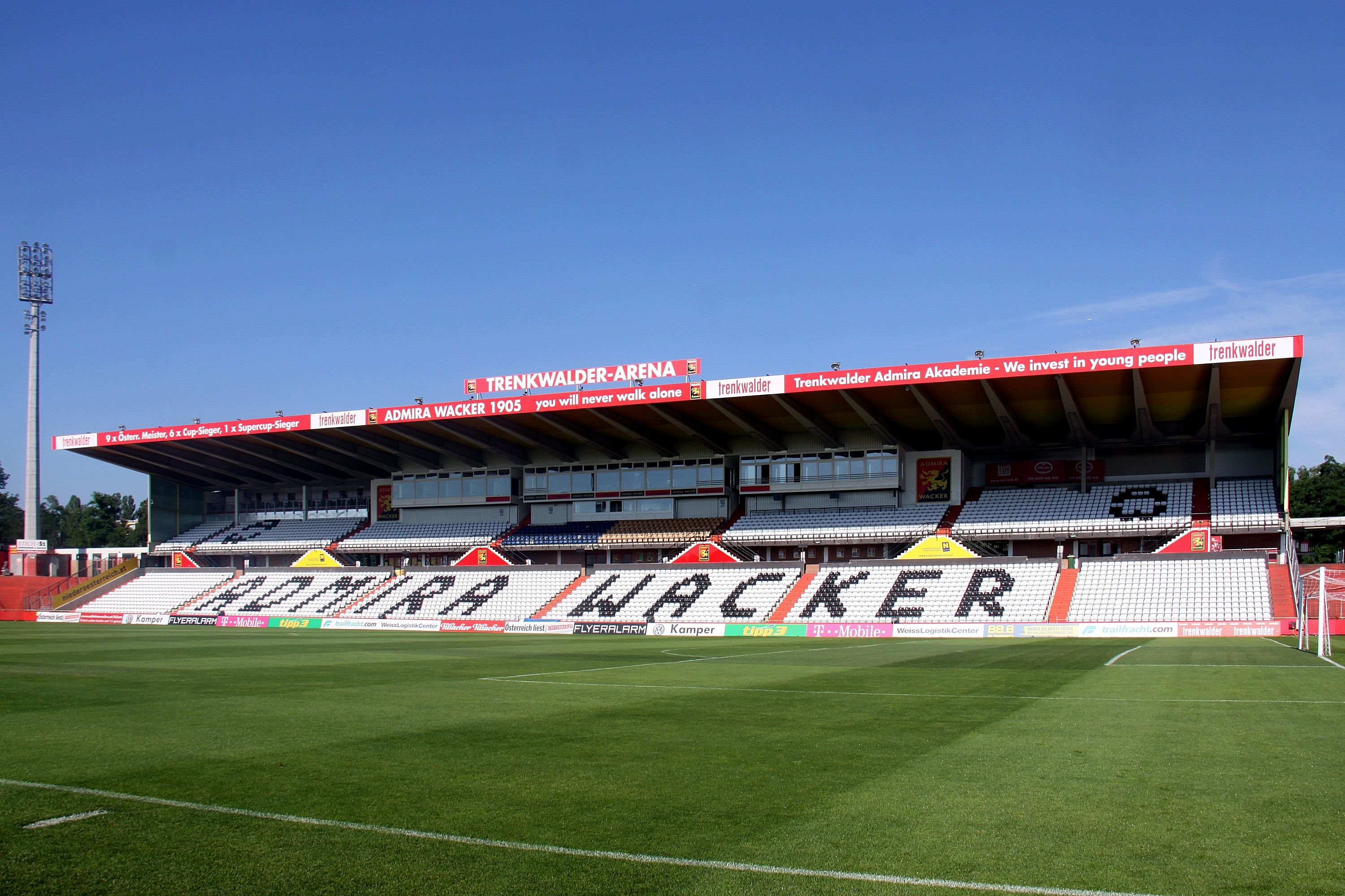 Teampresentation FC Admira Wacker Mödling at 2013-07-02 in Bundesstadion Südstadt. – The photo shows the stadion of FC Admira Wacker Mödling Bundesstadion Südstadt.